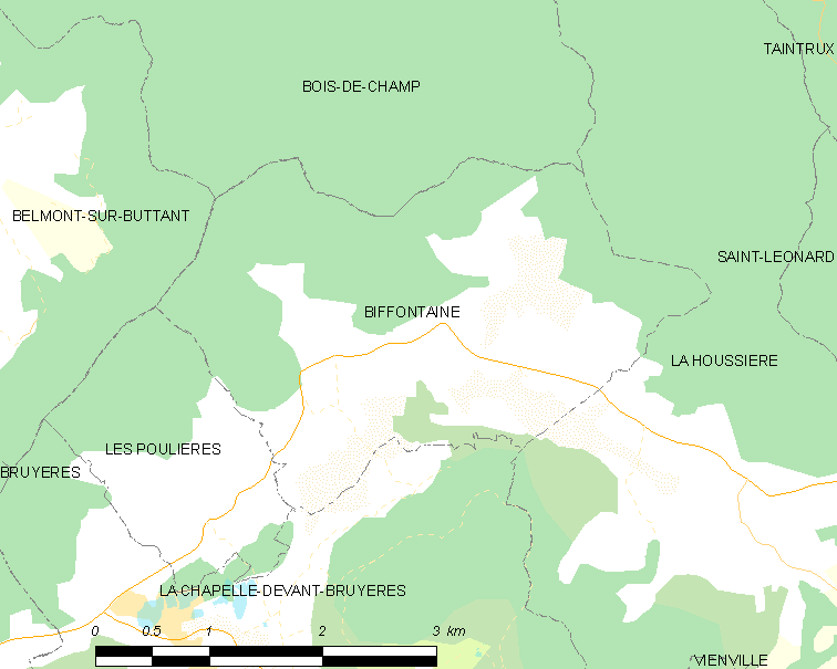 Map of French municipality Biffontaine